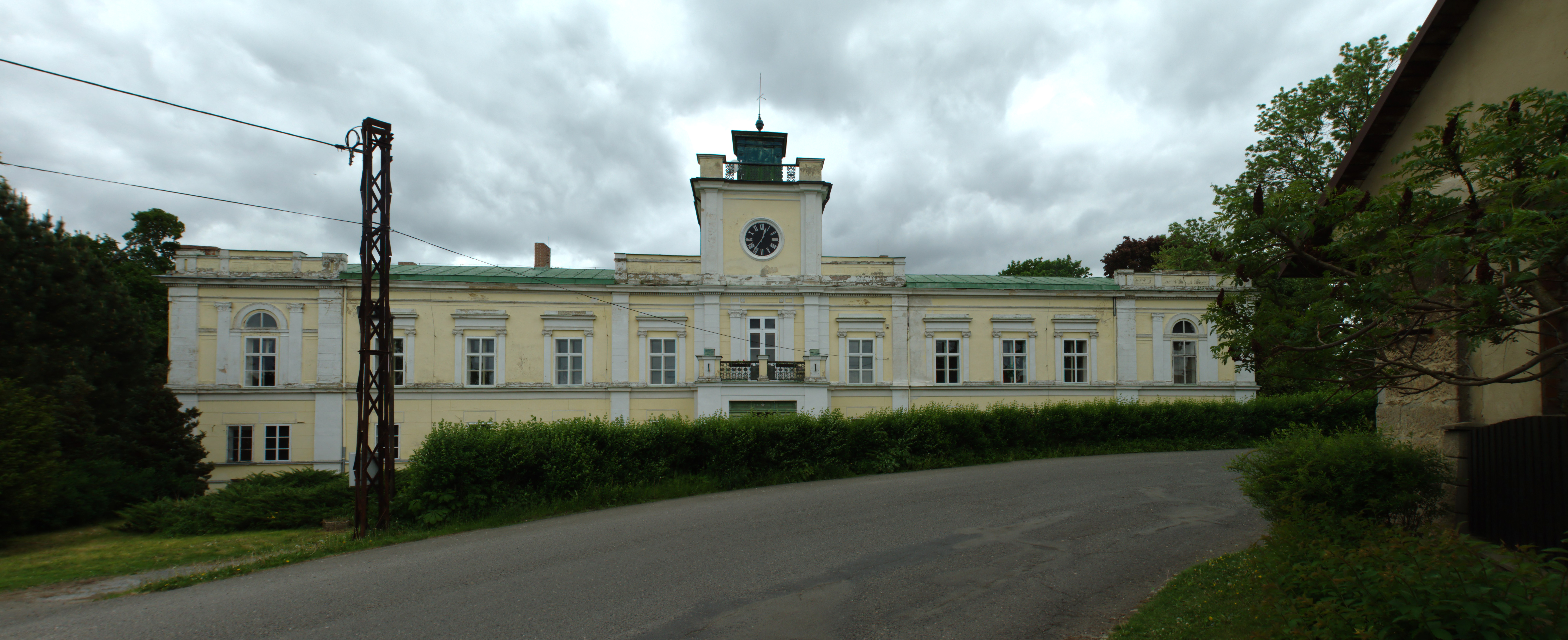 Mansion in Skalsko, Central Bohemian Region, CZ